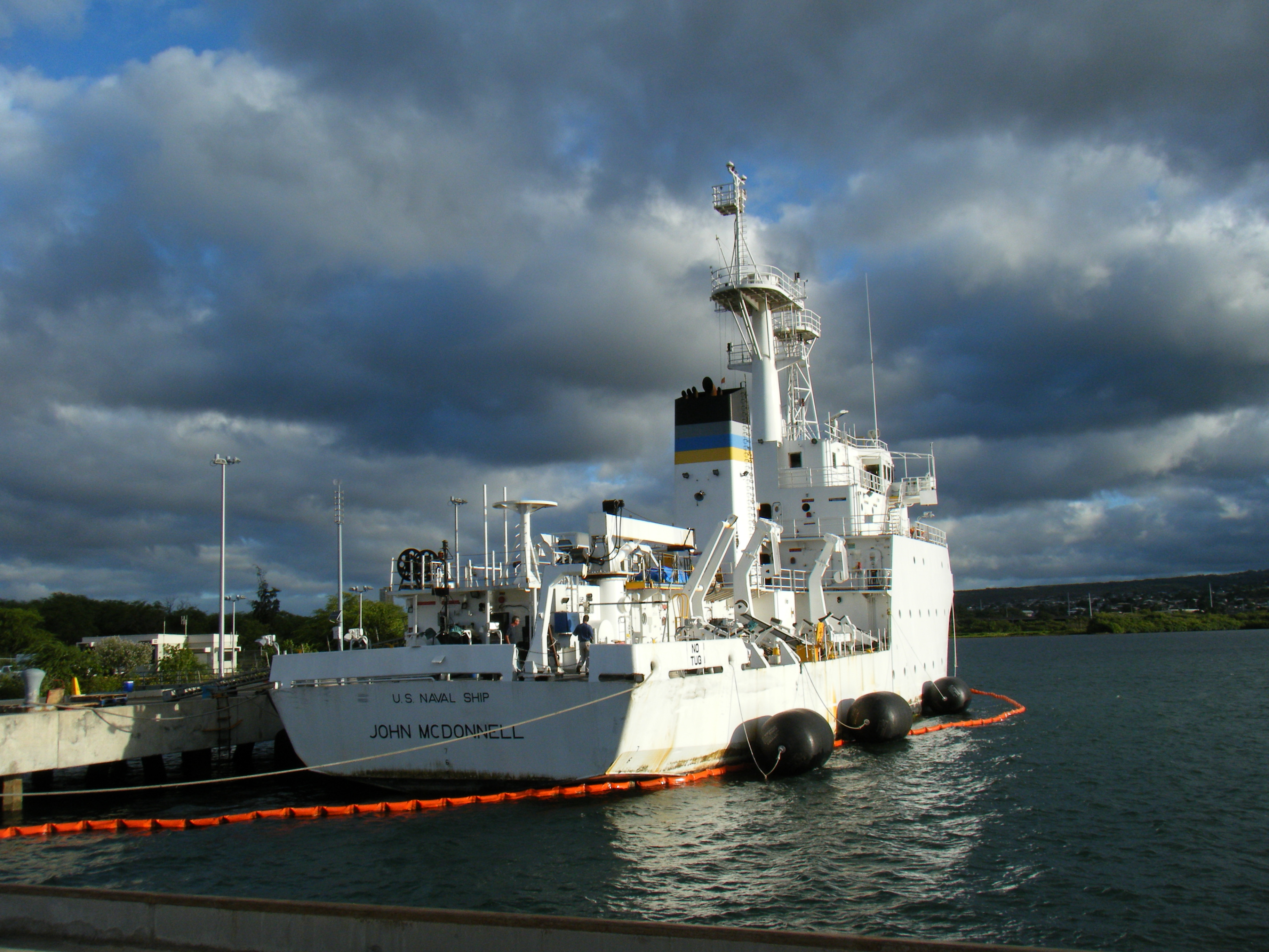 PEARL HARBOR (Aug. 25, 2010) The Military Sealift Command oceanographic survey ship USNS John McDonnell is delivered to the Navy Inactive Ships Program in Pearl Harbor, Hawaii for deactivation. (U.S. Navy photo/Released)